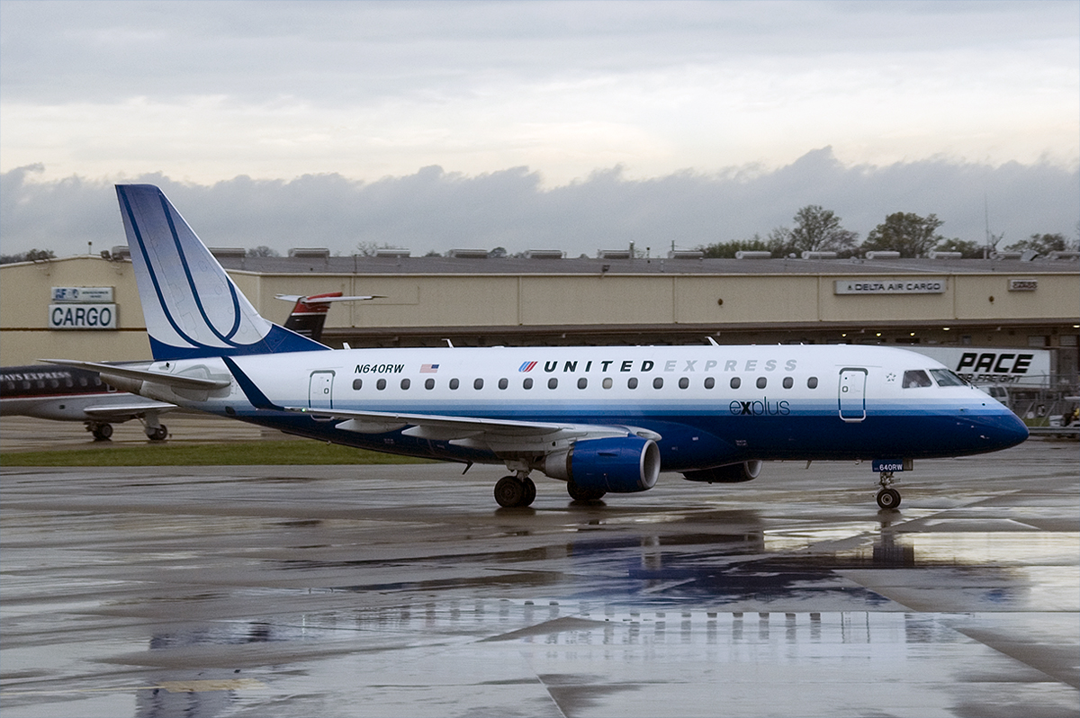 Shuttle America Embraer 170 N640RW in United Express livery